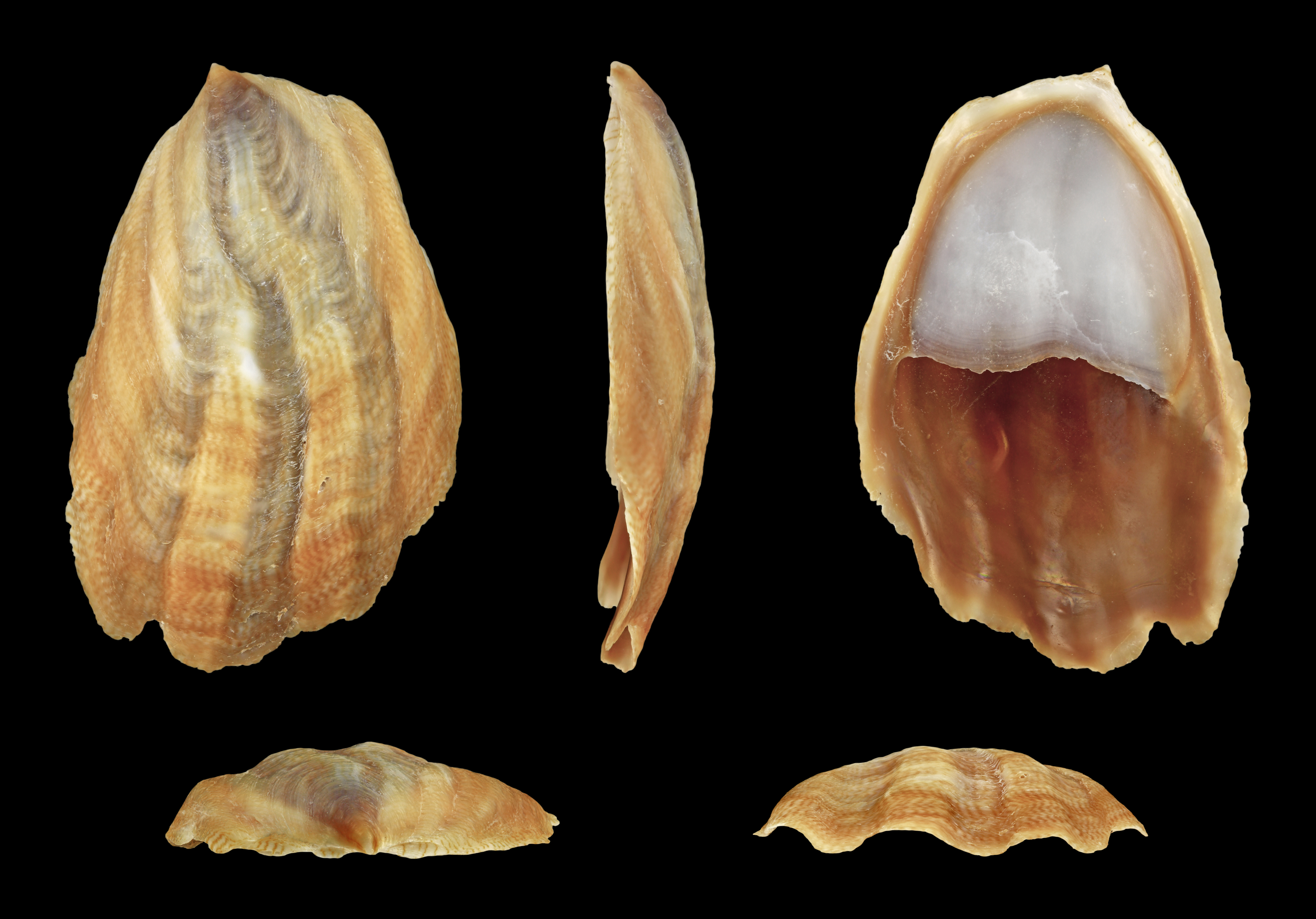 Onyx Slipper Snail; Length 3.2 cm; Originating from Pacific coast of Mexico; Shell of own collection, therefore not geocoded.